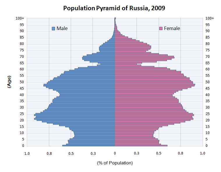 Population pyramid of Russia as of January 1, 2009. Data from the Federal State Statistics Service of Russia